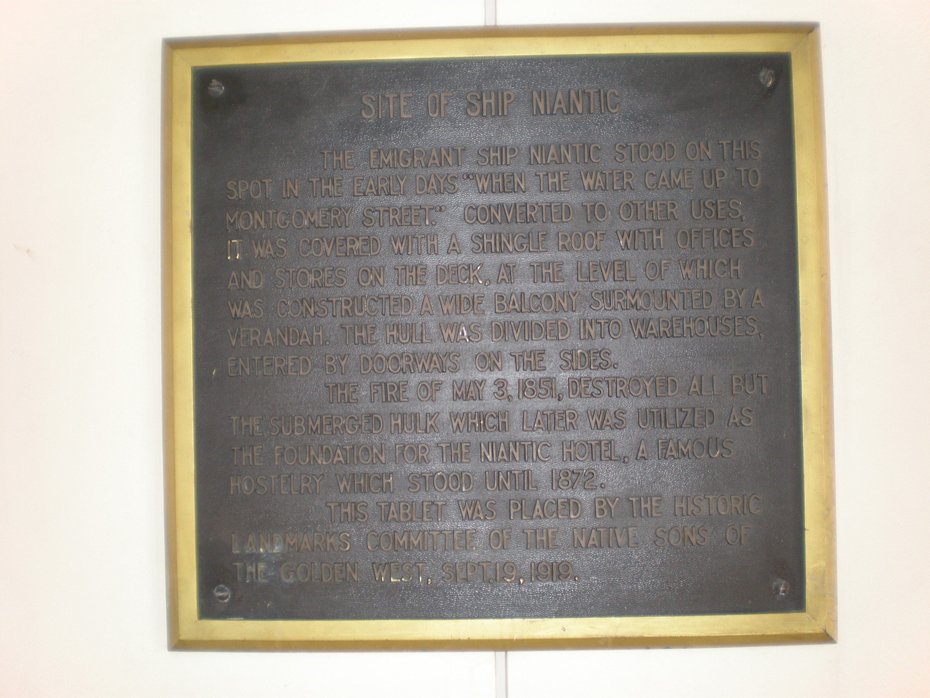 A plaque marking the location of the ship Niantic at the intersection of Clay and Sansome Streets in San Francisco.